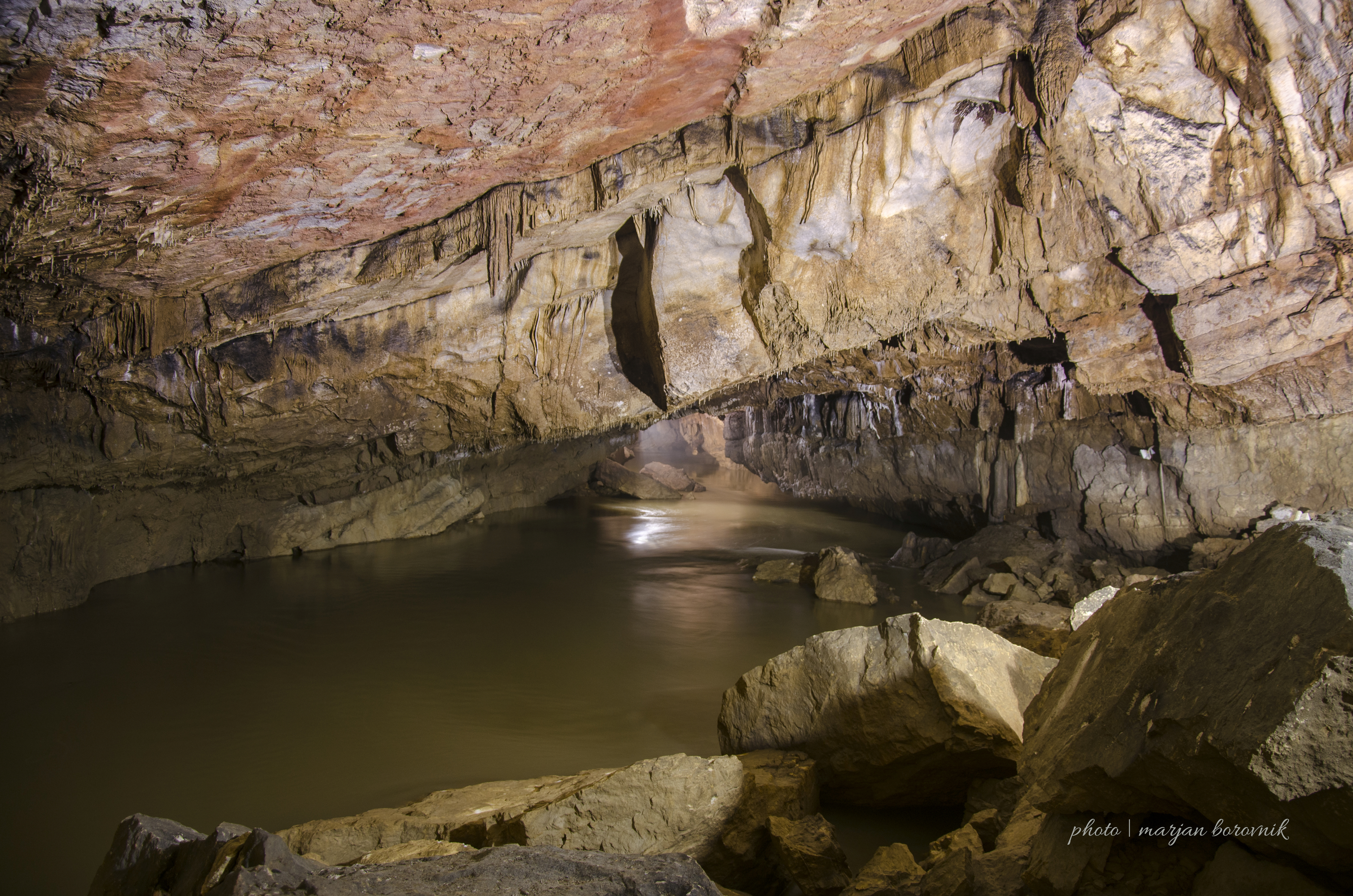 Krka Cave, a karst cave above the spring of the River Krka, south of the town of Ivančna Gorica, central Slovenia.